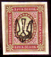 Overprint of the Arms of the Ukrainian People's Republic on stamp of Russian empire. The Odessa post district, 1918